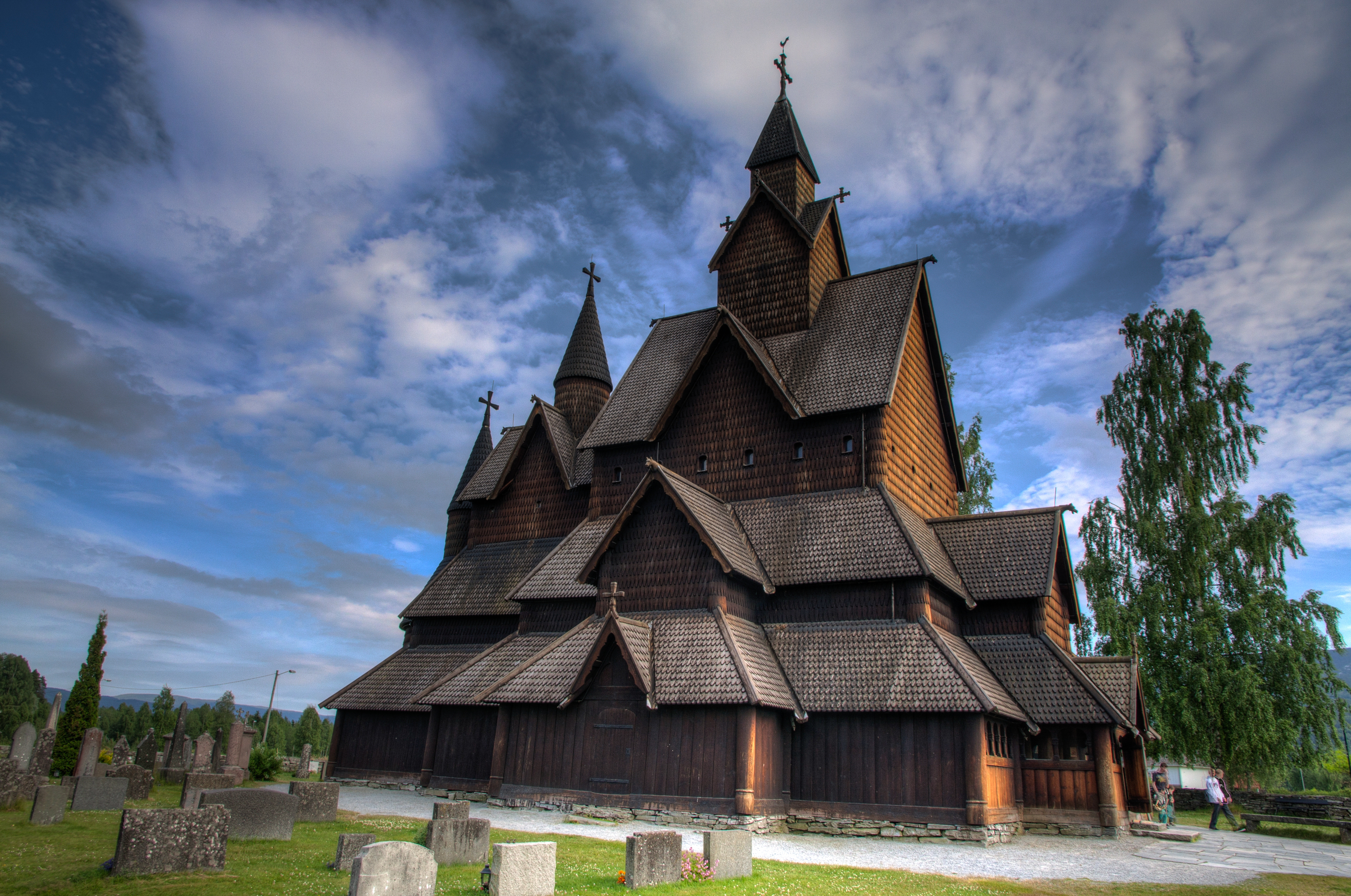 Exterior view of the Heddal stave church, Notodden municipality in Telemark, NorwayNorsk bokmål: Heddal stavkirke, Notodden, Telemark